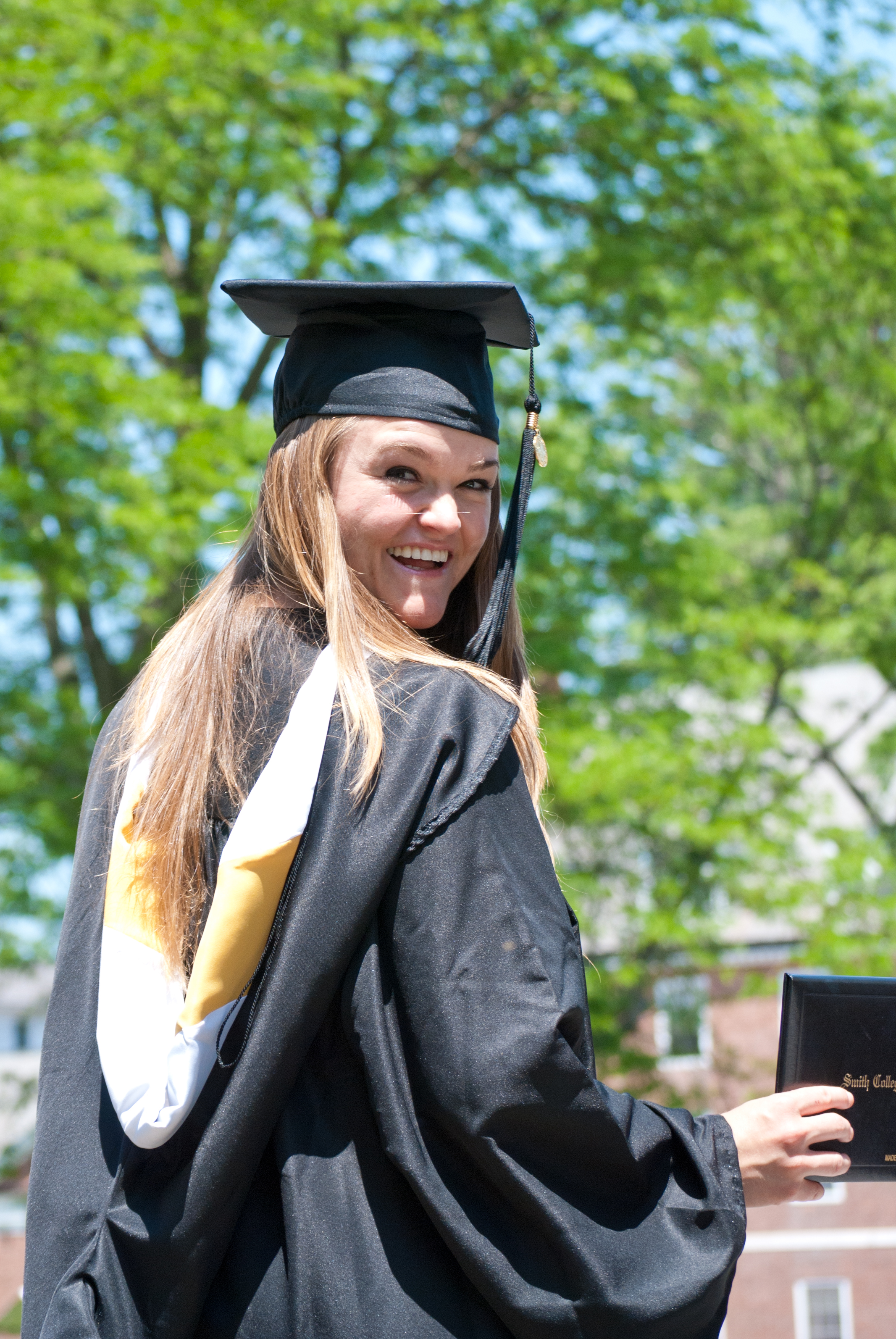 A recent graduate of Smith College wearing the academic regalia of that institution. The hood is lined white with a yellow chevron.